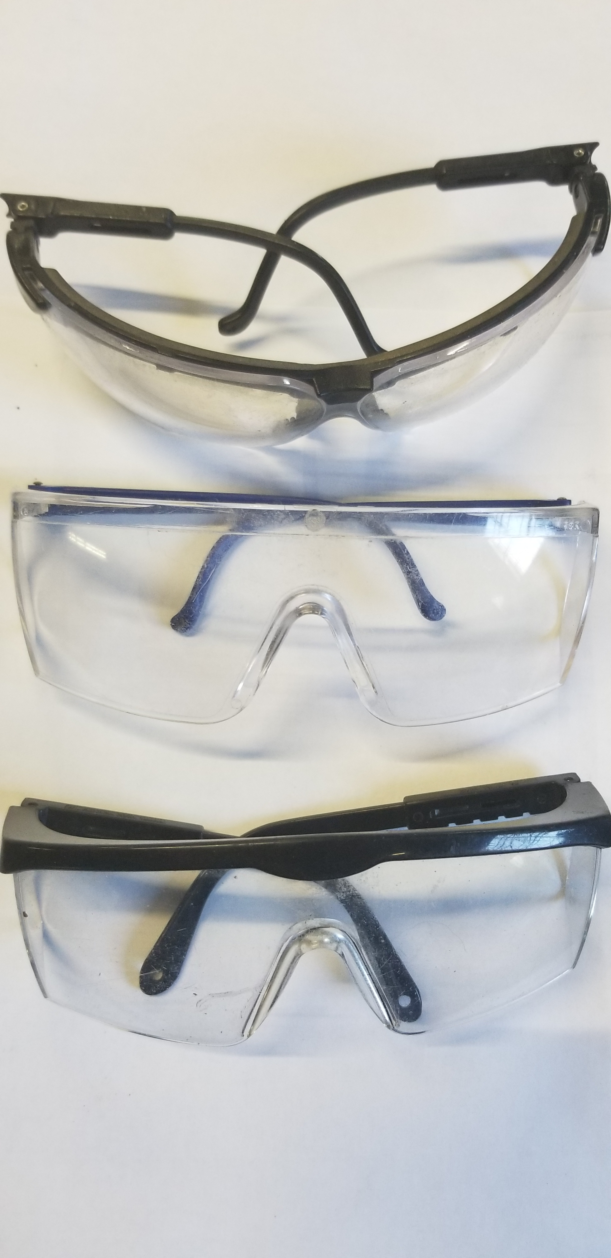 Three different styles of safety glasses with side impact shields. The top glasses are UVEX S3300 Genesis XC protective spectacle consists of a plastic frame (one size) with interchangeable polycarbonate lenses. The frame features ratcheting adjustment and telescoping arms for improved fit and comfort. The lens provides extended coverage over the eye socket area. Additionally, a small ventilation space has been engineered between the frame and the lens that vents the eye socket area to help reduce moisture. The frame is identical to that used in the UVEX Genesis. The frame and lens assembly weighs 1.3 ounces (37 gram). All lenses have been treated with a hard-coat on the exterior surface to reduce scratching and an anti-fog coating on the interior surface to reduce fogging. The UVEX XC provides ballistic-fragmentation protection, and meets all ANSI Z87.1-2003 optical and safety requirements. The lens material blocks 99.9% of all UVA and UVB light. An optional prescription lens carrier is available for those who require corrective lenses. Genesis XC Safety Glasses are also designed to meet the ballistic impact standards set by the U.S. Military (MIL-PRF-31013, Clause 3.5.1.1). These standards are 7× higher than ANSI requirements. These MILITARY COMBAT EYE PROTECTION (MCEP) glasses are on the AUTHORIZED PROTECTIVE EYEWEAR LIST (APEL®) QUALIFIED PRODUCT LIST ( and (NSN: 4240-01-516-5361).